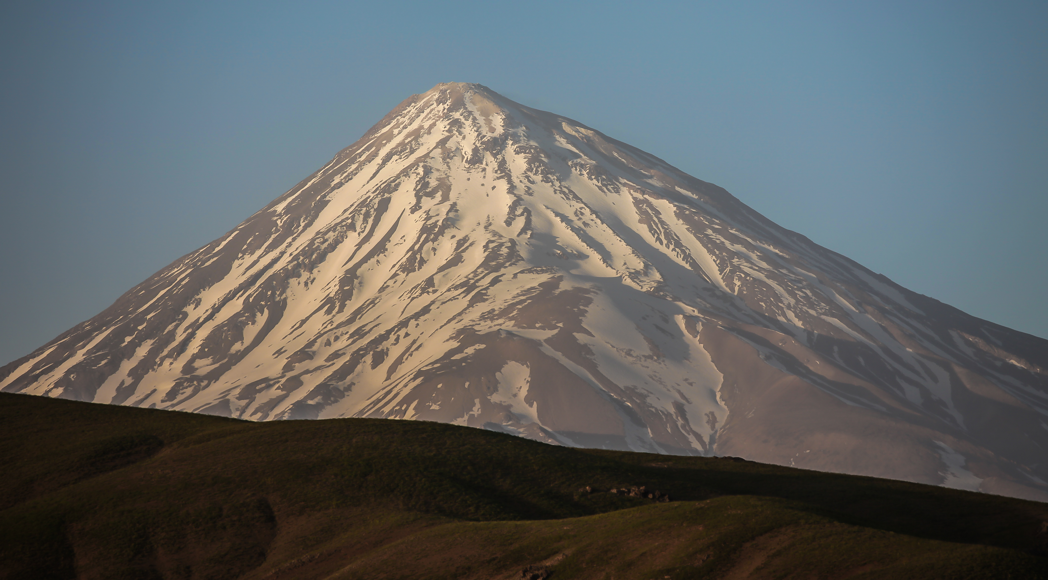 Mount Damavand in Alborz Mountains, Iran, Sunset